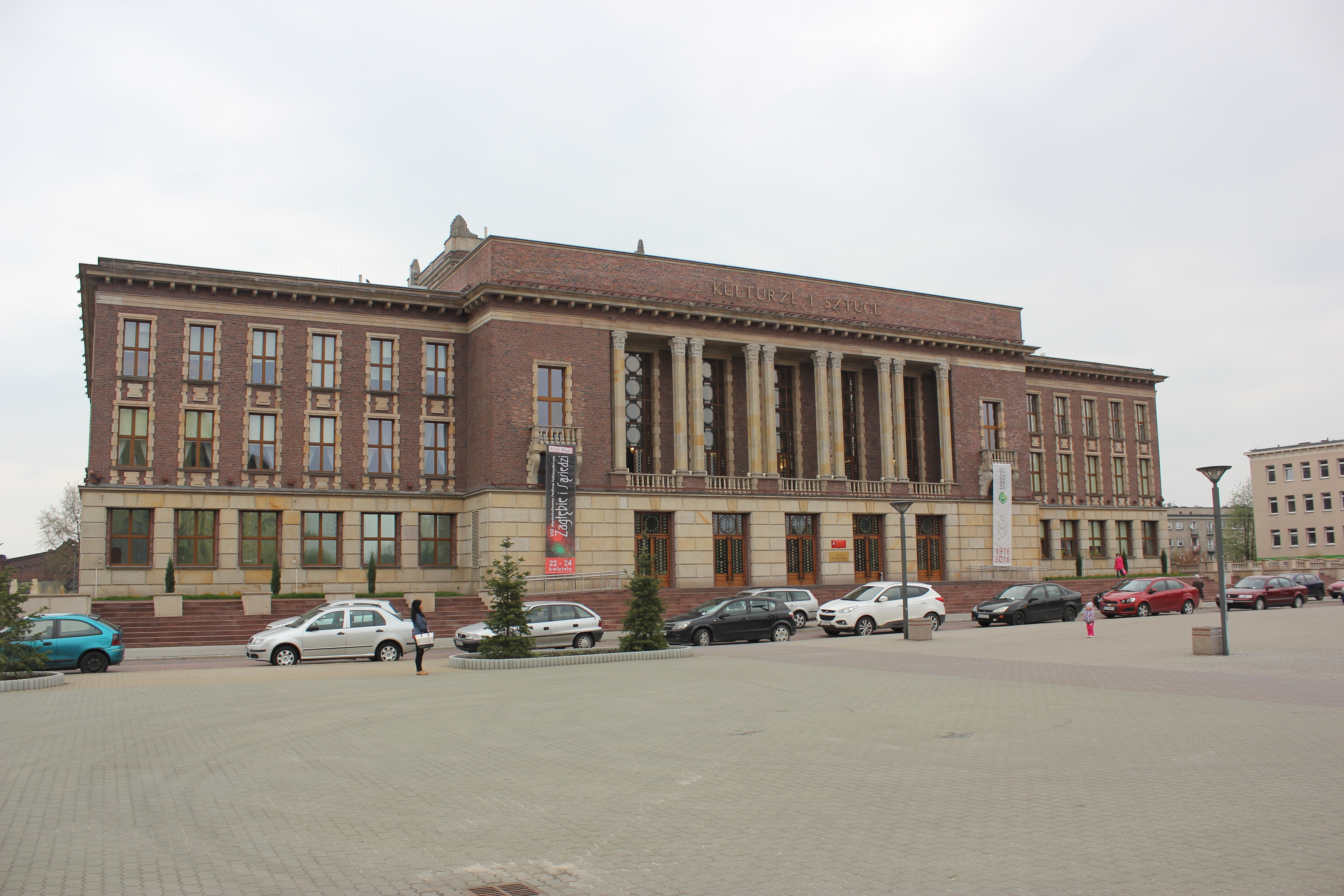 Dąbrowa Górnicza - Palace of the Culture of Zagłębie region